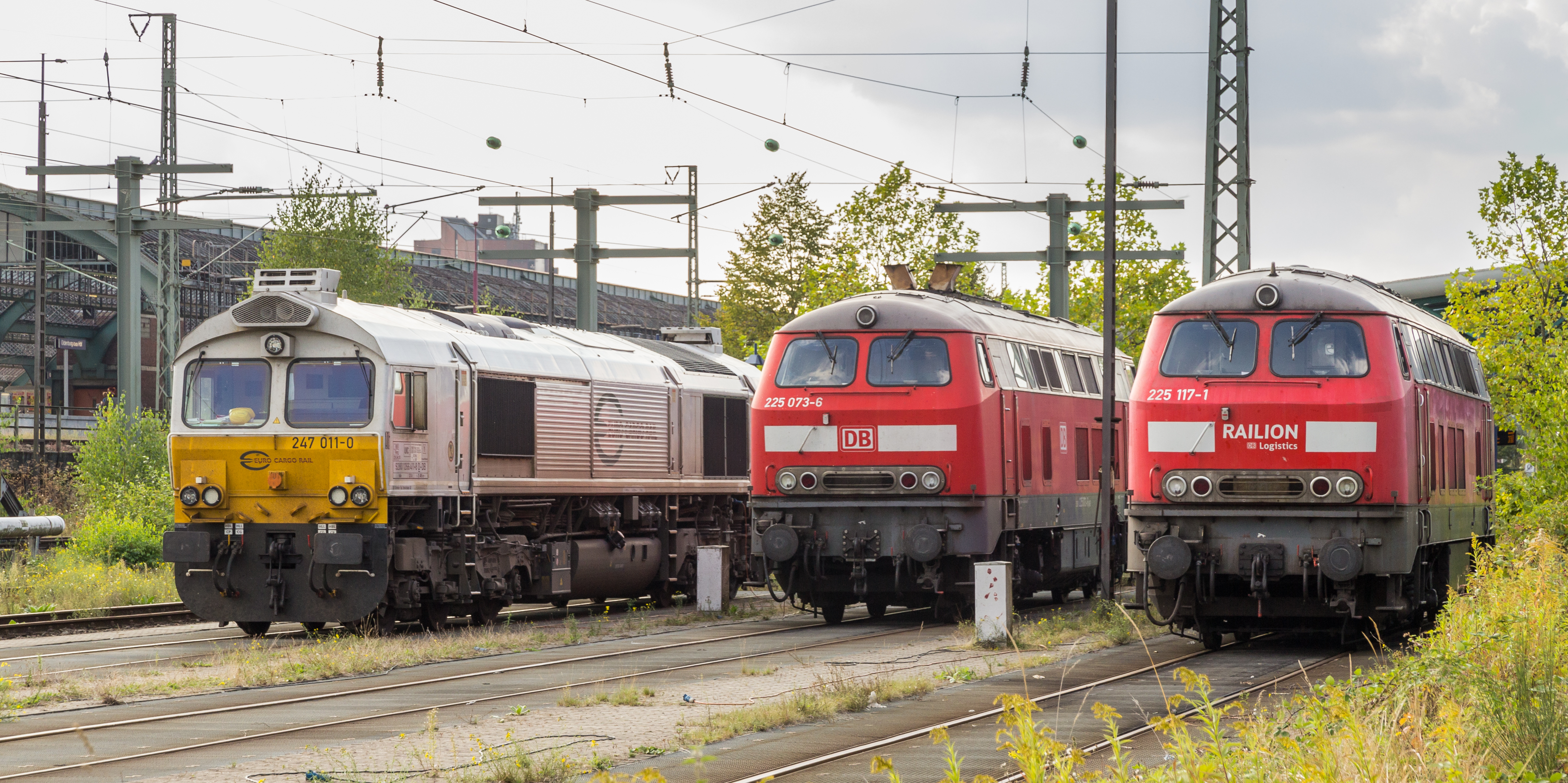 Diesel lokomotives DBAG Class 225 and Euro Cargo Rail Class 77 in Oldenburg (Oldb), Germany